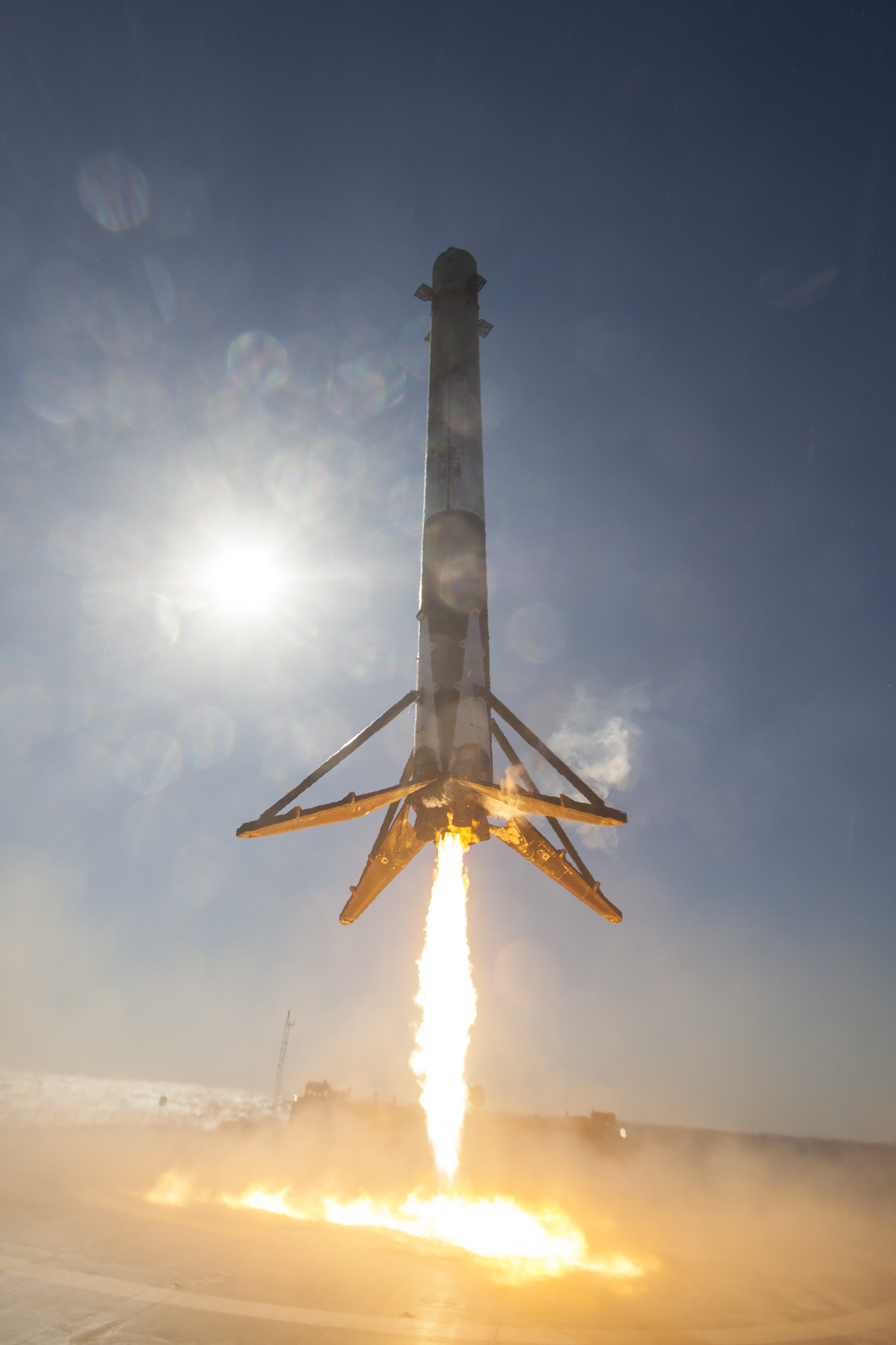 First stage of the SpaceX Falcon 9 rocket successfully landing on the commissioned Autonomous Spaceport Drone Ship for the first time on April 9. The mission, CRS-8, also launched the Dragon spacecraft to orbit.